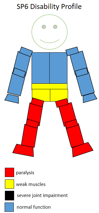 Shows F6 SP6 disability sports profile. Created using information from